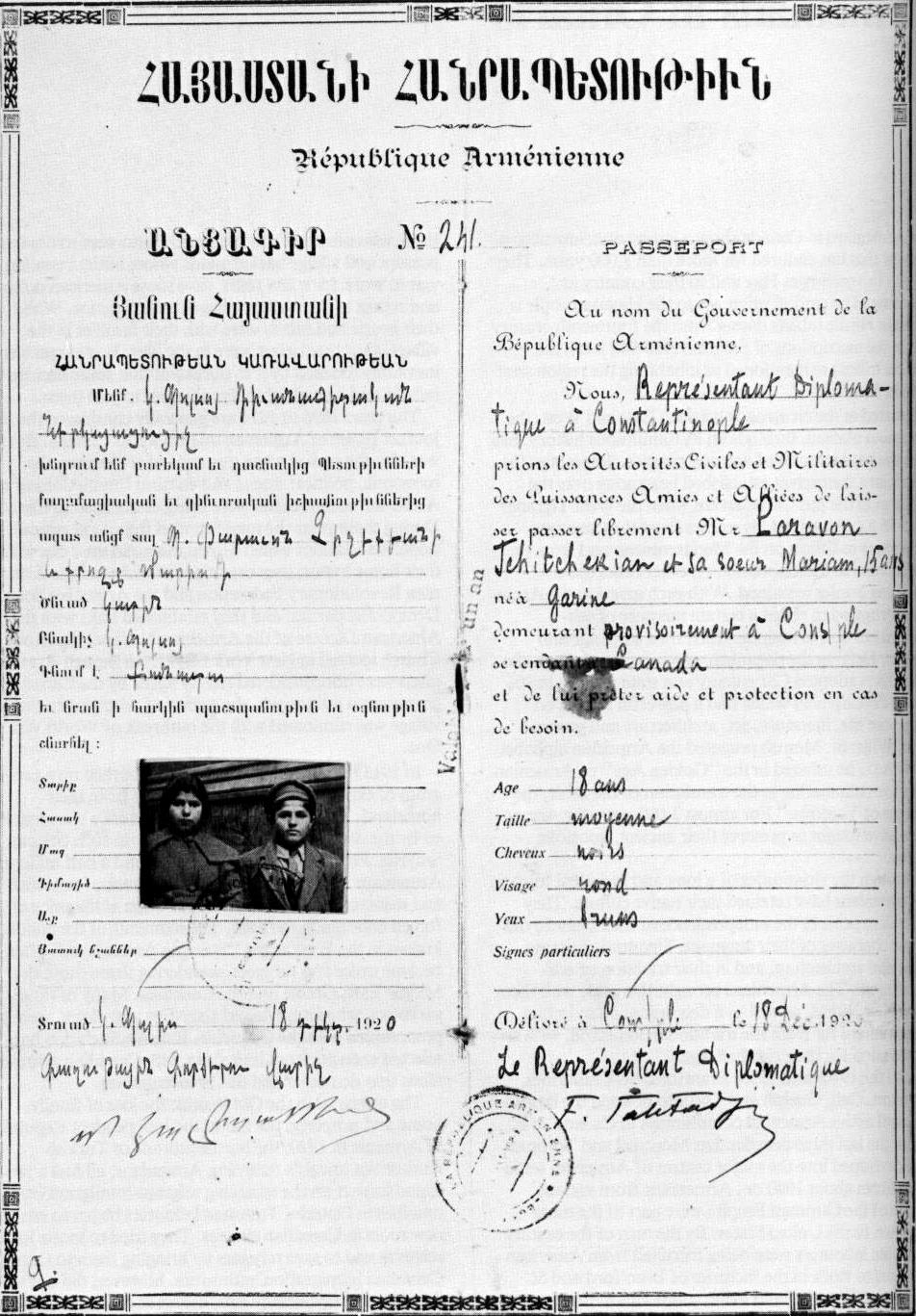 Republic of Armenia passport issued in Constantinople to two teenagers entering Canada in 1920. Image scanned from "Polyphony: The Bulletin of the Multicultural History Society of Ontario - Armenians in Ontario, Fall/Winter 1982, Vol.4, No. 2".